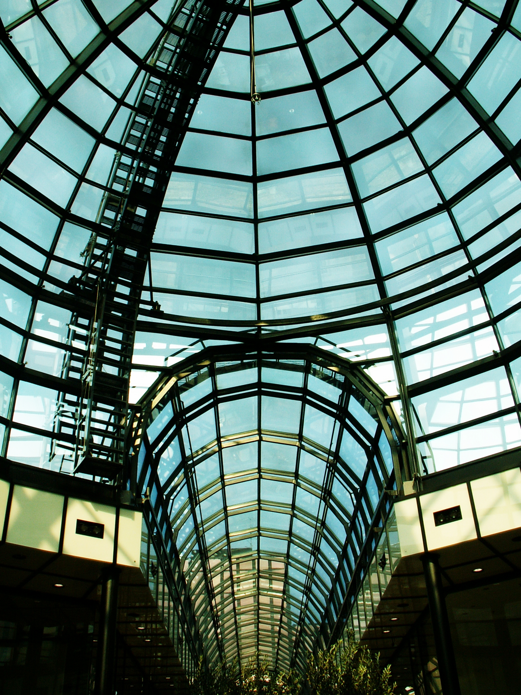 Galerie Luise